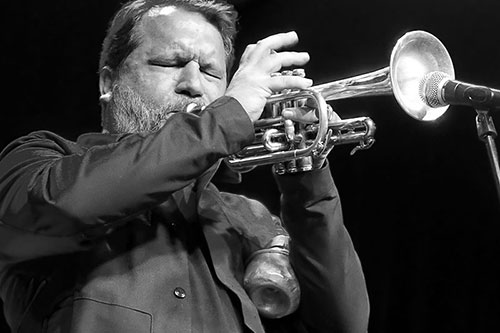 Rob Manzurek in Aarhus, Denmark 2015